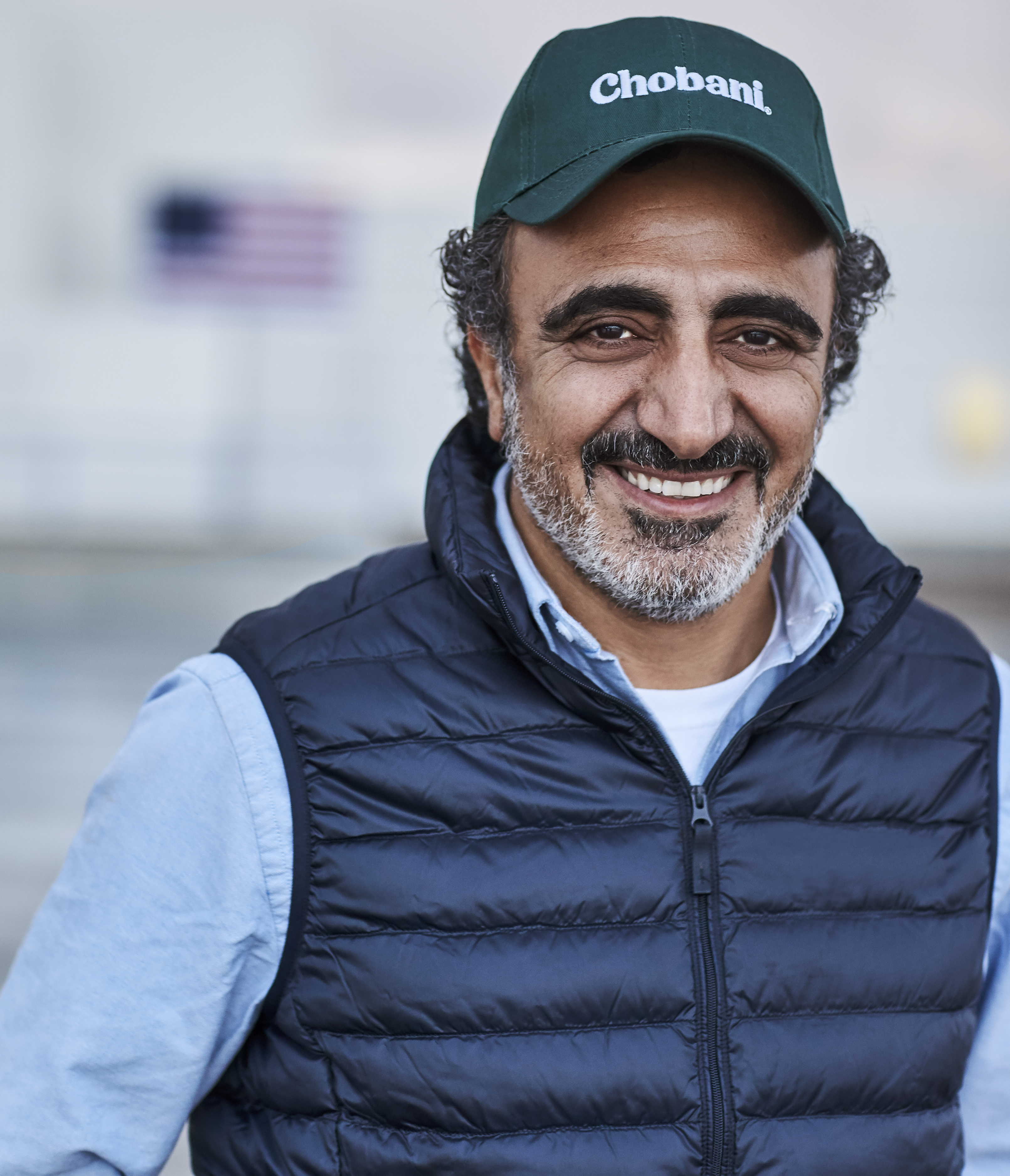 Outdoor portrait of Hamdi Ulukaya